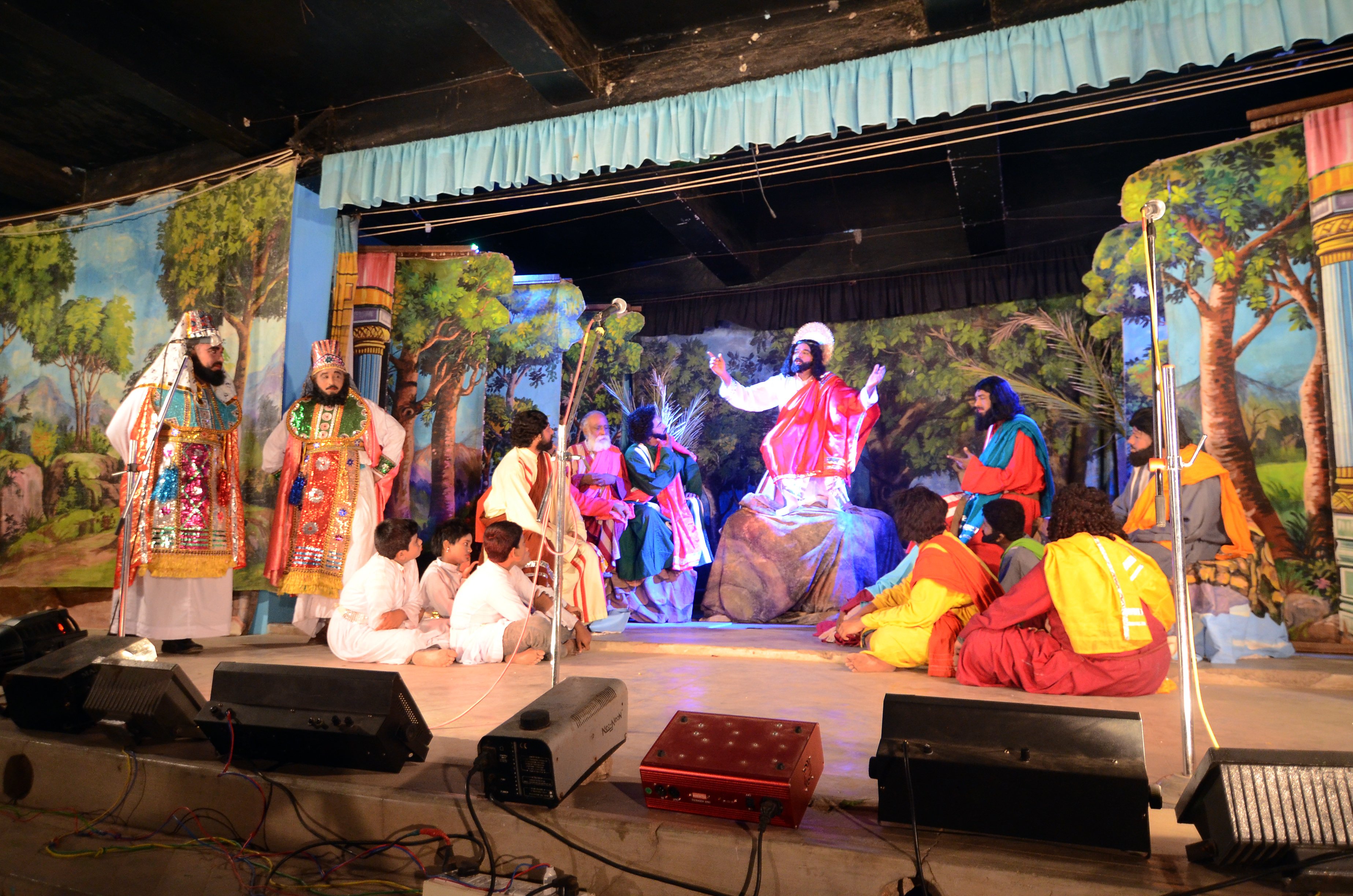 The scene of Jesus's preach.